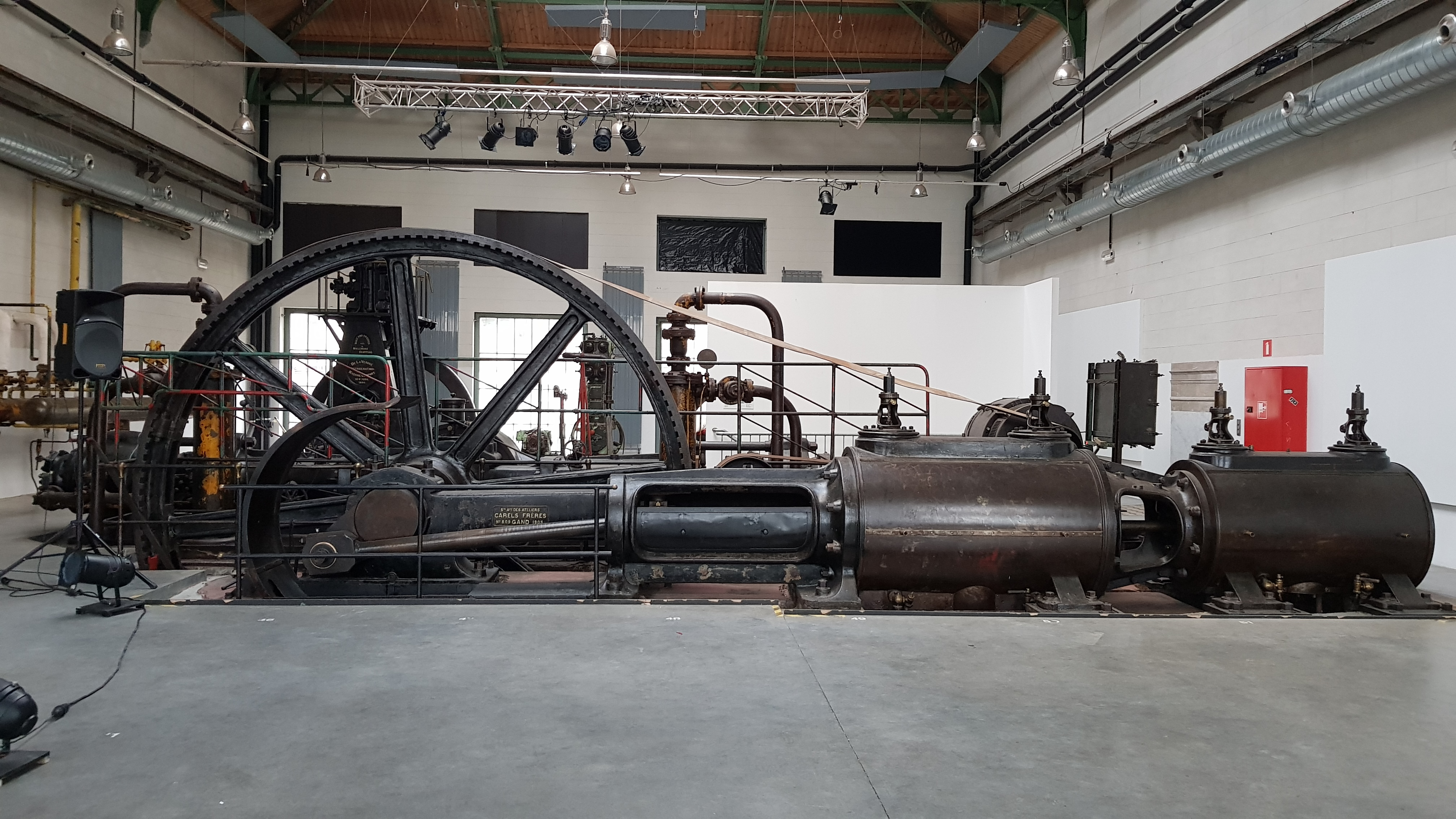 interior of BRASS: steam engine Carels et Frères, Forest / Vorst, Belgium